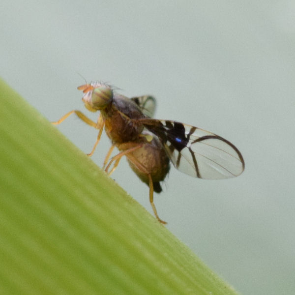 Anomoia purmunda photographed in Gwydir Street, Cambridge, August 2014.